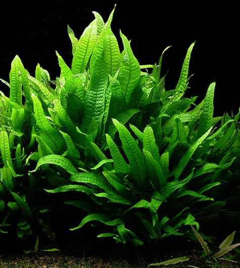 or Java Fern, one of only a few ferns capable of growing underwater.